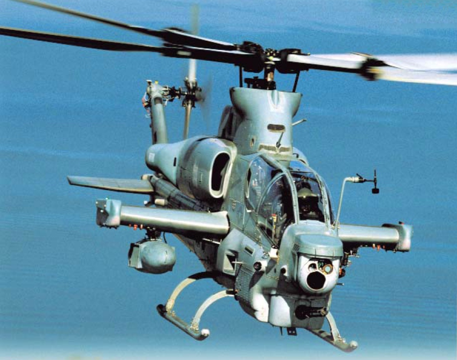 A U.S. Navy Bell AH-1Z Viper from air test an evaluation squadron HX-21, based at Naval Air Station Patuxent River, Maryland (USA), in flight in 2005.